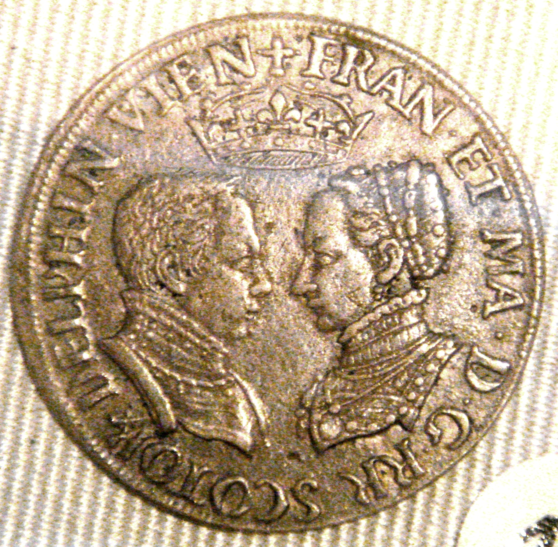 Coin of Francois_II_and Mary Stuart, Scotland_1558